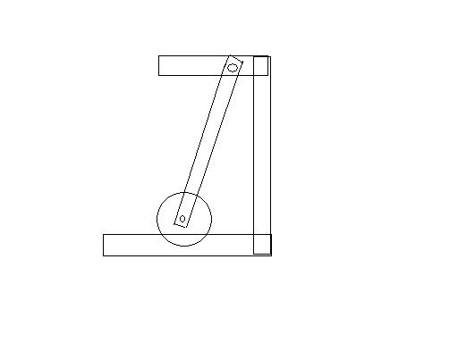 Telecine Guy 00:51, 2 February 2012 (UTC) My own work, released Pendulum saw or Swing saw, side view I made this photo and I have released it as stated here, so a transfer is fine, if one wishes to transfer it. Telecine Guy 17:11, 7 February 2012 (UTC)